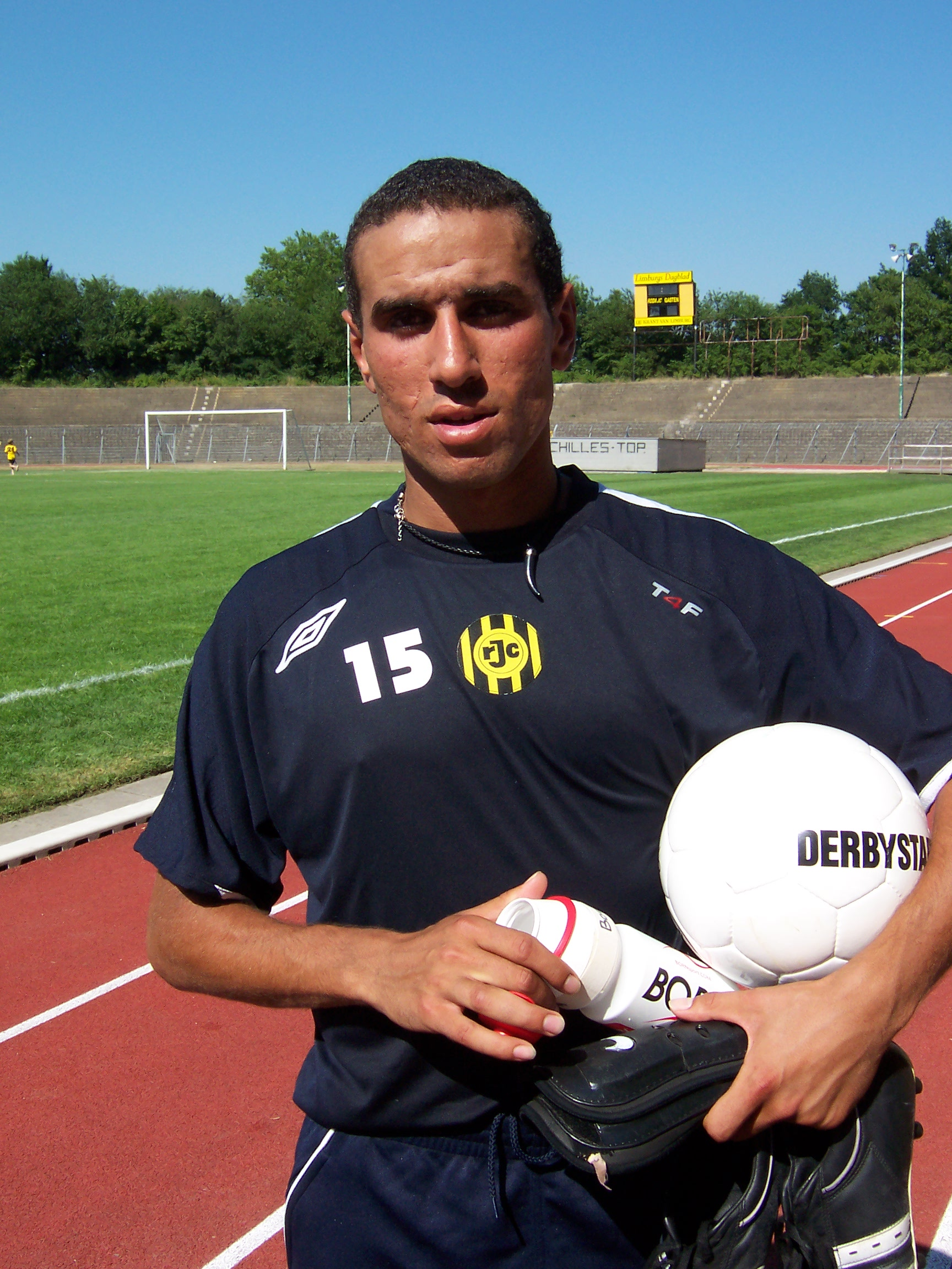 Soccerplayer Elbekay Bouchiba